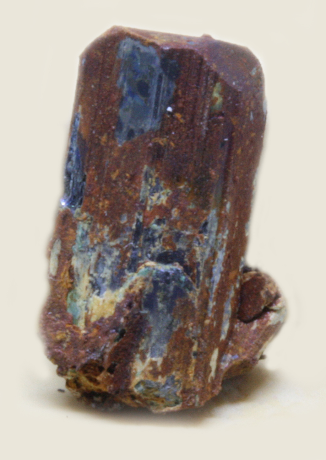 Chalcostibite crystal. El Vagón mine, Lanteira (Granada) Spain